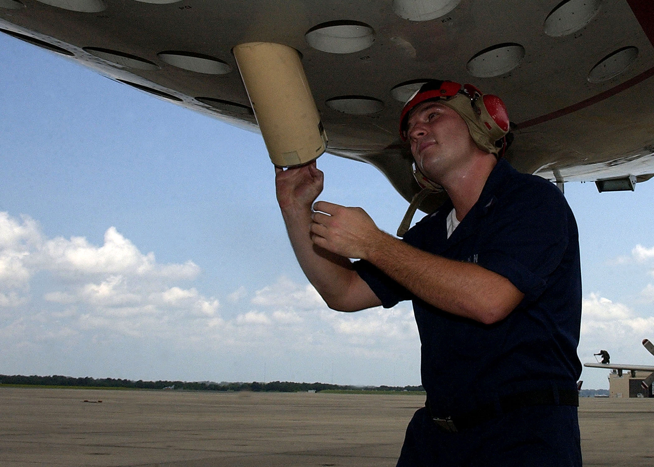 Jacksonville, Fla. (Sept. 1, 2005) - Aviation Ordnanceman 3rd Class Curtis Ballard removes sonobouys from the underside of a P-3C Orion on board Naval Air Station Jacksonville, Fla. Petty Officer Ballard is assigned to the “War Eagles” of Patrol Squadron Sixteen (VP-16). U.S. Navy photo by Photographer’s Mate Airman Jacqueline Hall (RELEASED)